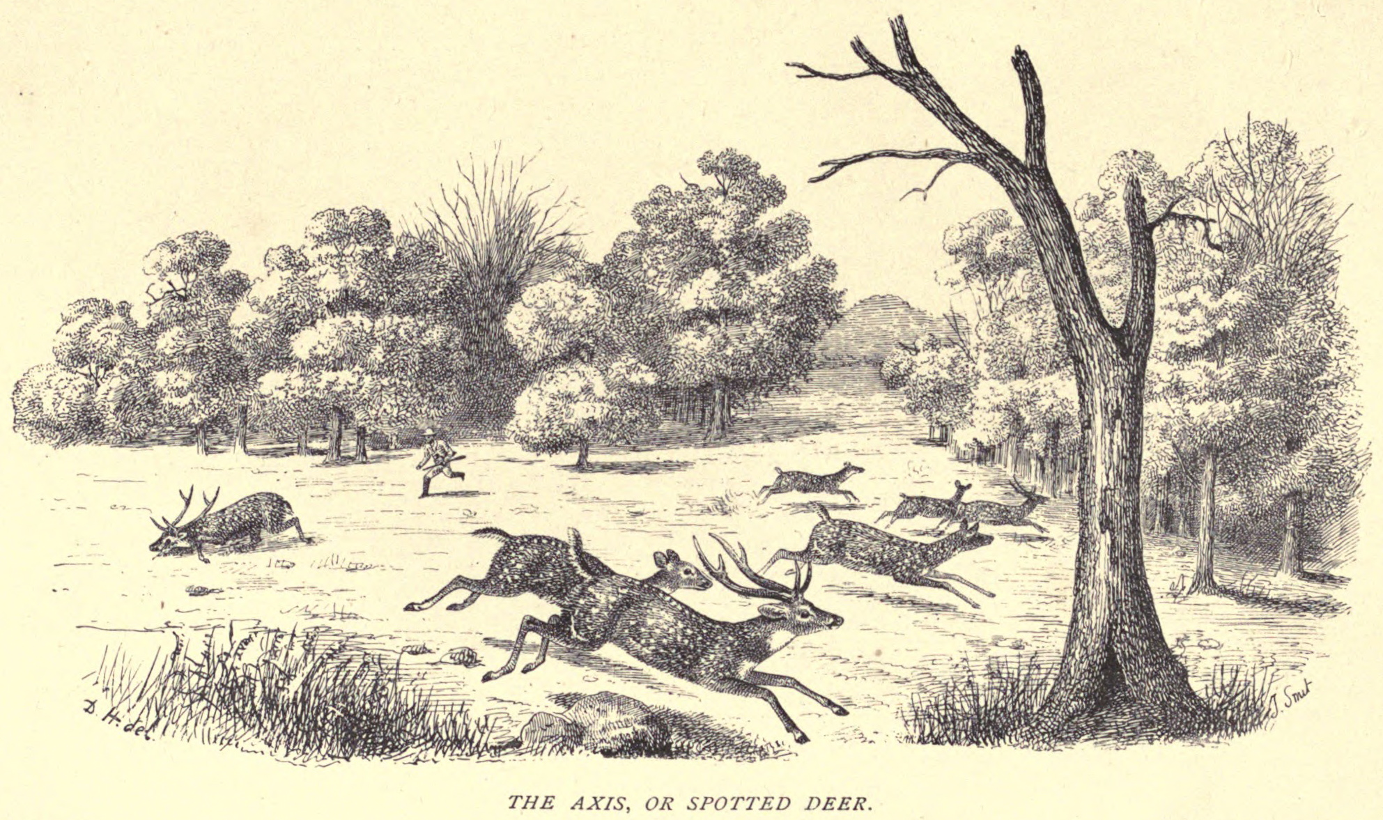 Douglas Hamilton, The_Axis_or_Spotted_Deer...277